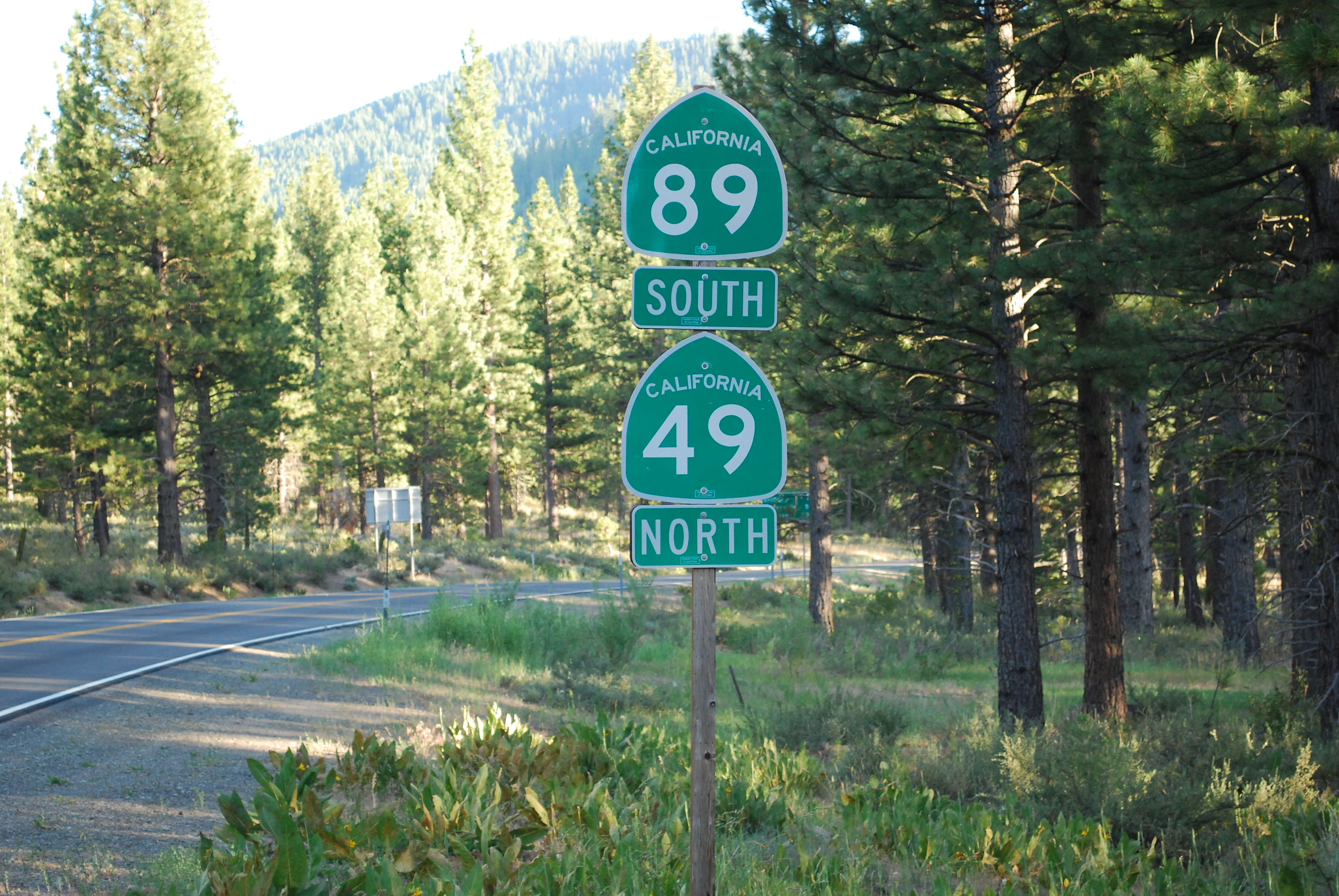 California highways Route 49 and Route 89 — sharing the same route in the northern Sierra Nevada.